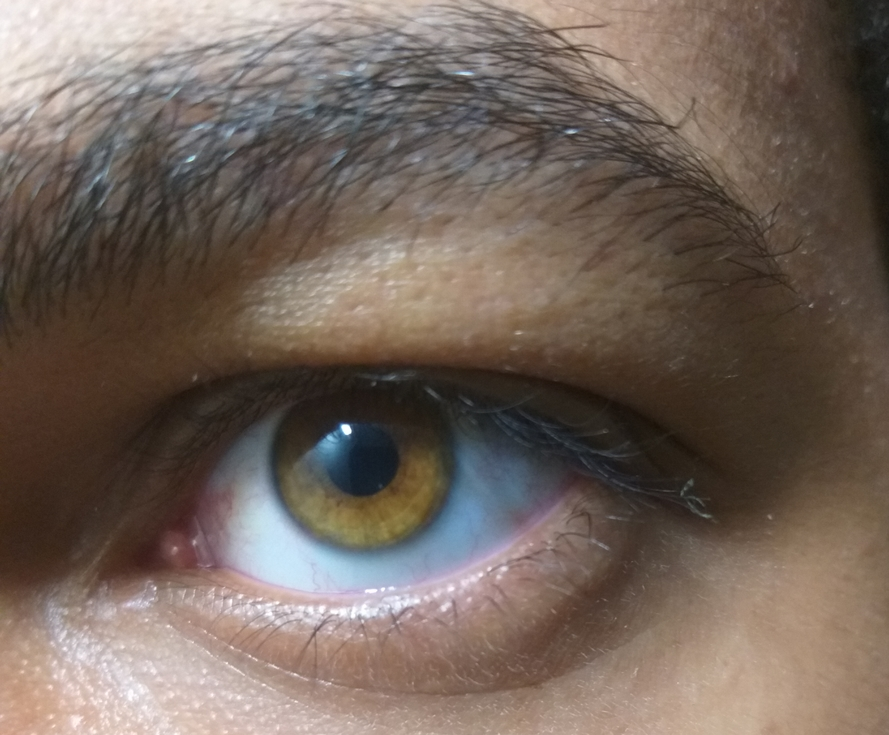 Amber eyes